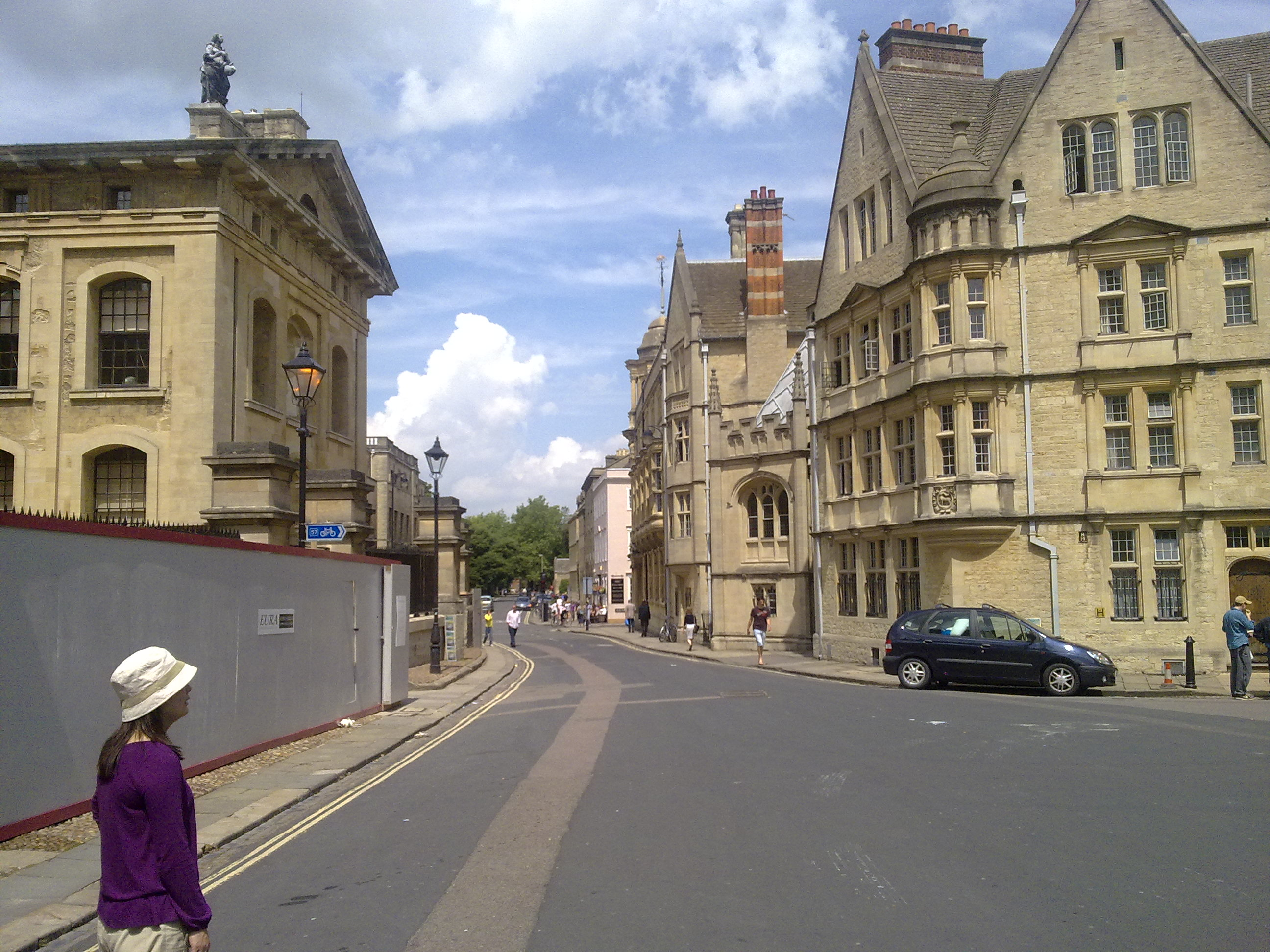 Catte Street from north of the Bodleian Library, looking north towards Parks Road.